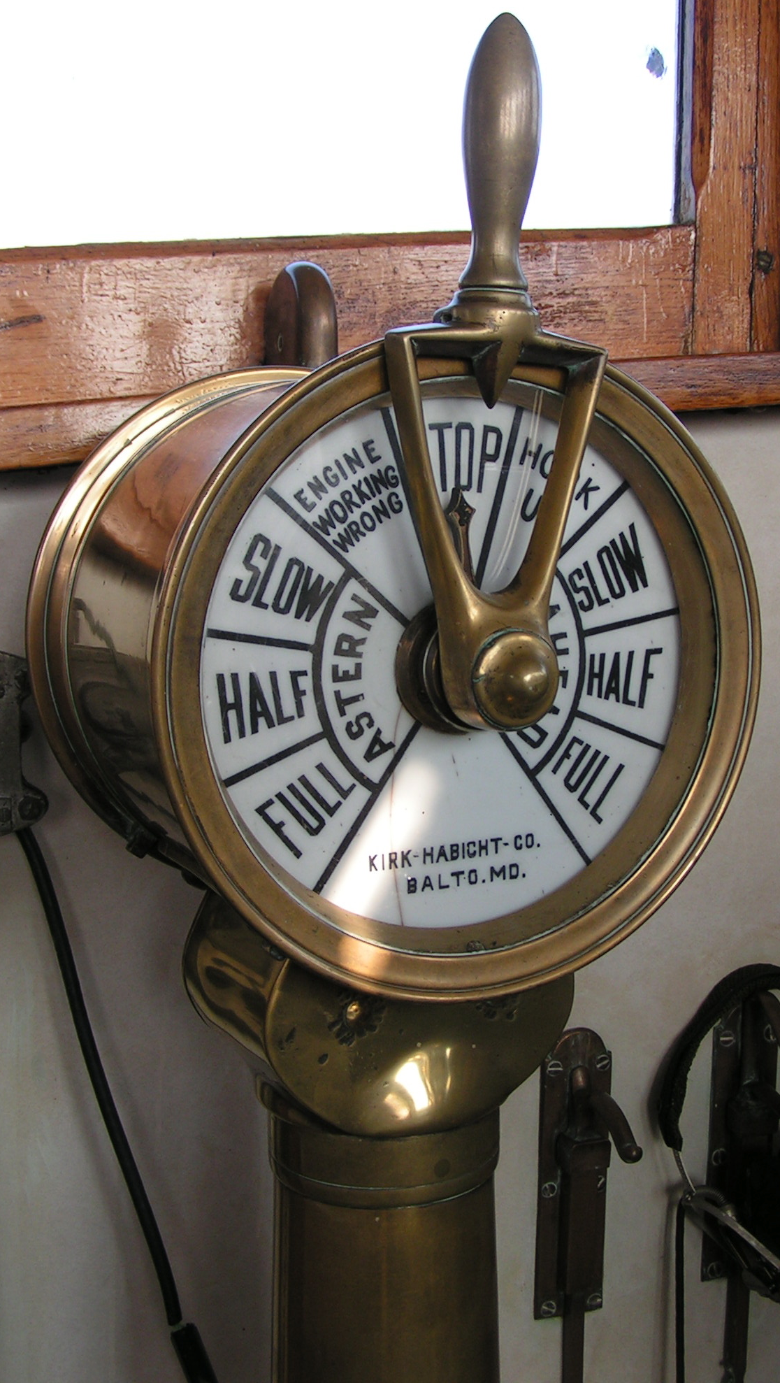 Engine order telegraph (aka "ship's telegraph") from the H. Lee White Marine Museum, Oswego, NY. Telegraph was manufactured by the Kirk-Habicht Co., of Baltimore, MD.